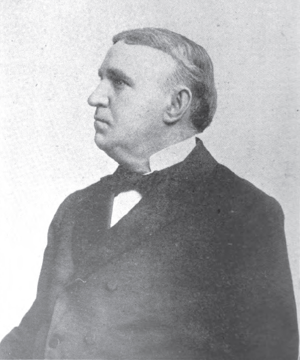 Ohio politician named J. Ford Laning, Huron County, Ohio